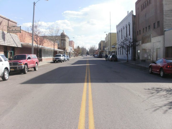 Downtown Dillon, Montana.